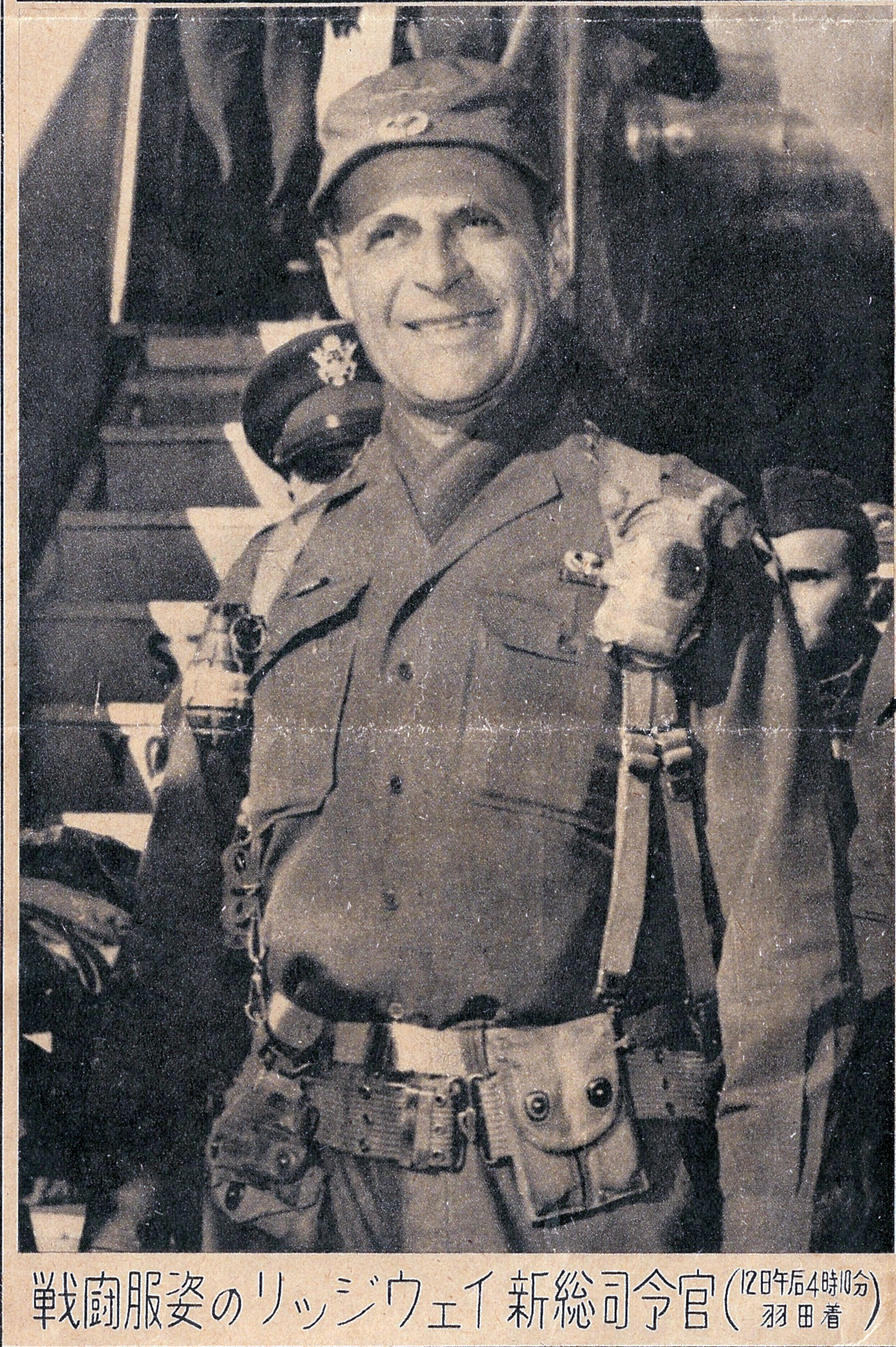 Matthew Ridgway in 1951